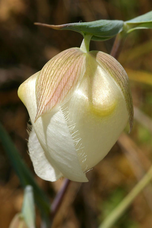 Calochortus albus. West Cuesta Ridge, San Luis Obispo Co, CA April 30